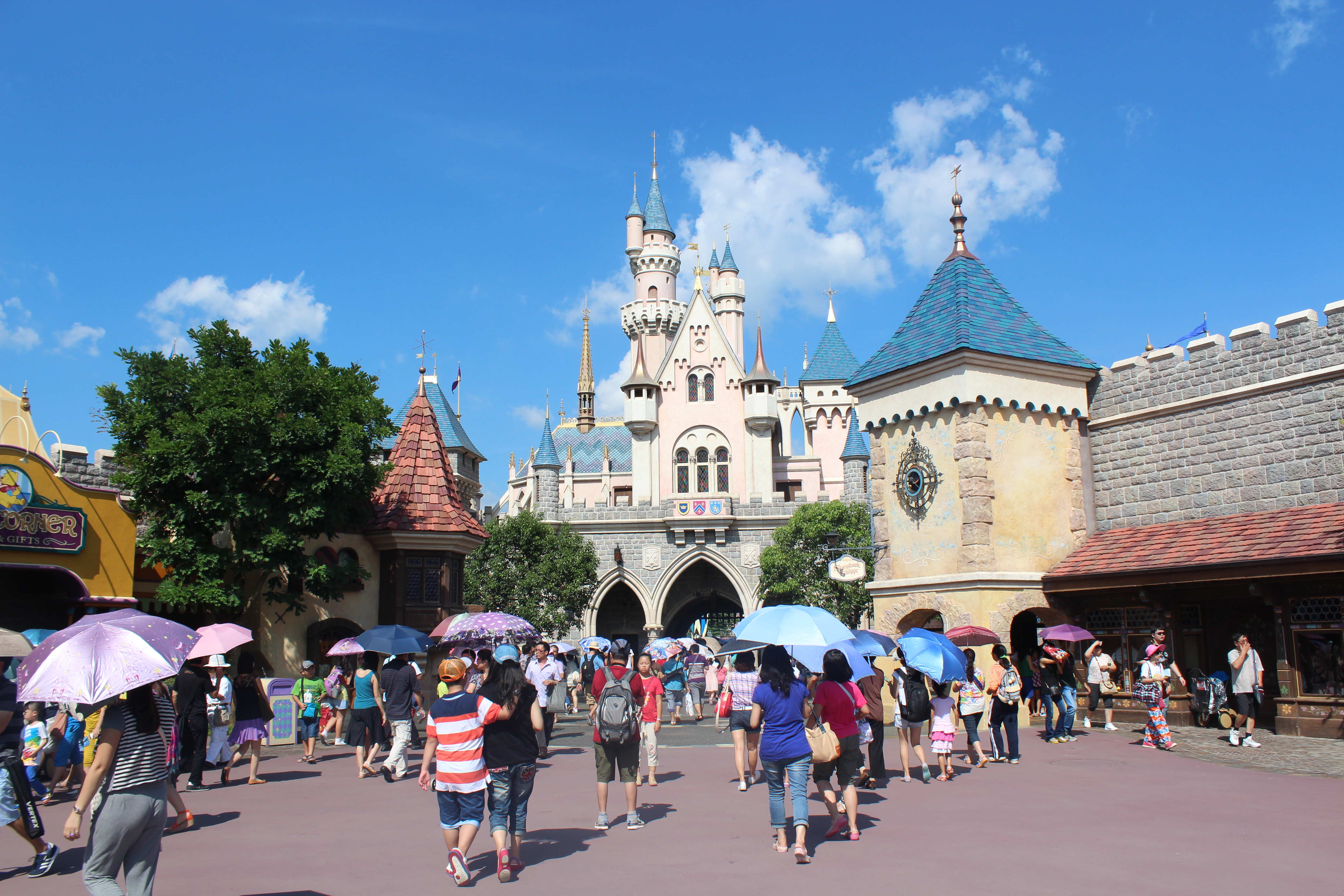 Sleeping Beauty Castle at Hong Kong Disneyland, Hong Kong